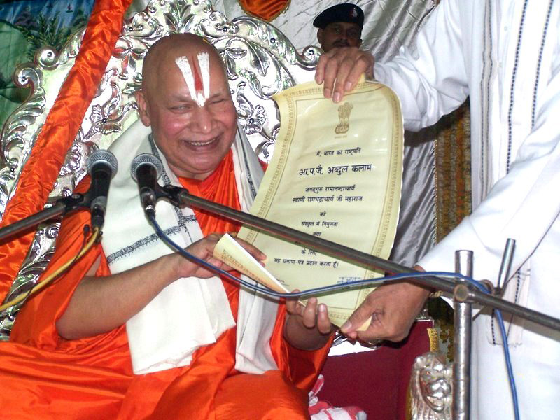 Jagadguru Rambhadracharya being honoured by A P J Abdul Kalam